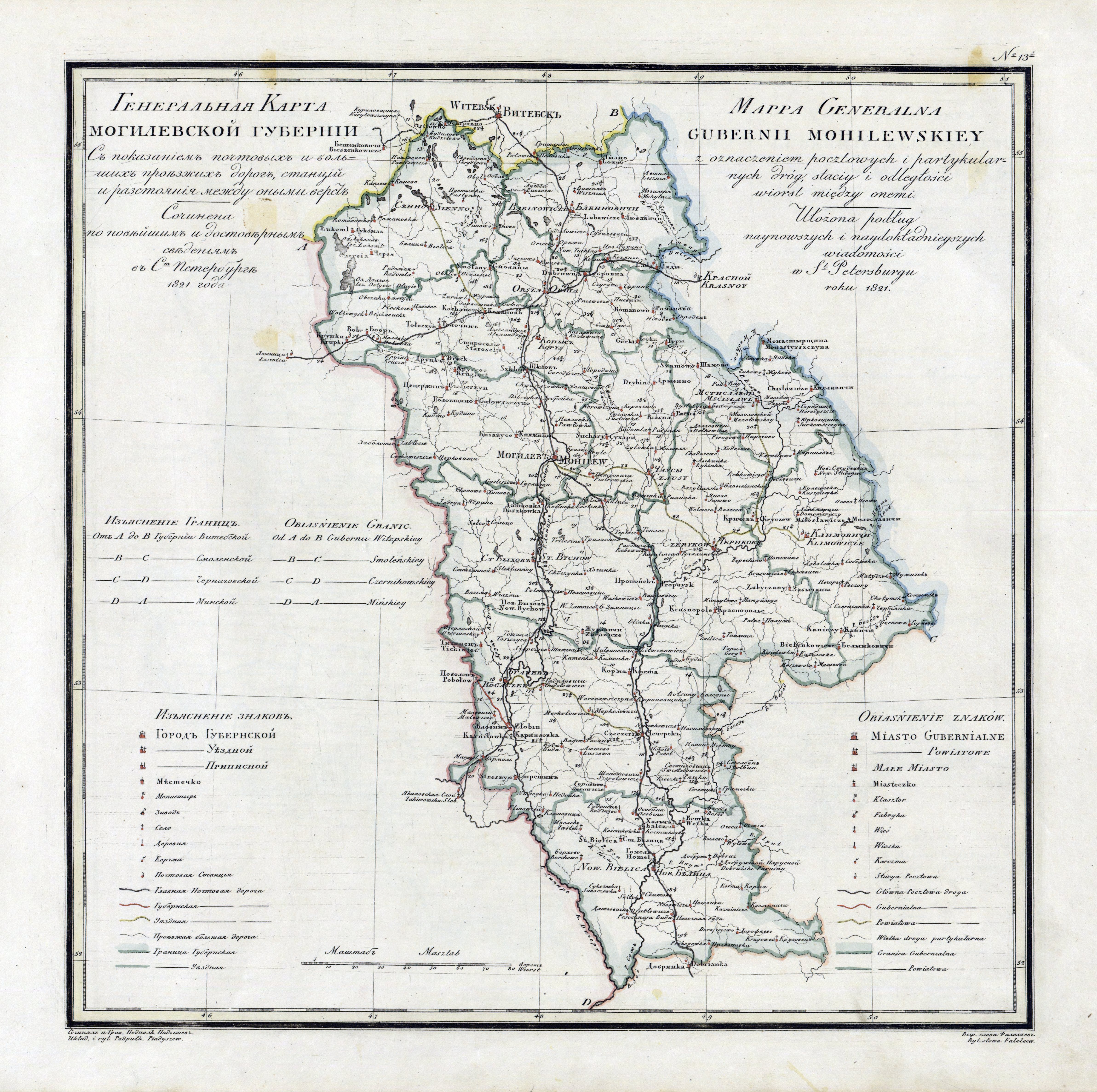 Mogilev governorate